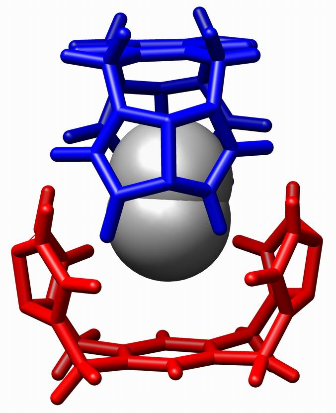 This is a picture generated from a crystal structure reported by Julius Rebek, Jr. and coworkers in Chemistry-A European Journal, 1996, 2, 989-991. It shows a dimeric molecular assembly that contains a single nitrogen molecule. It was made by myself and is free to be used by all others.